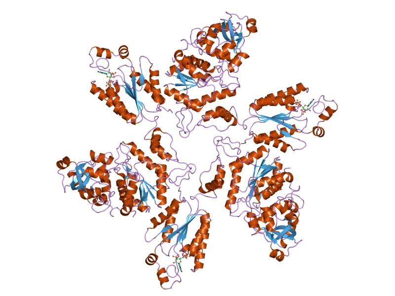 Cartoon representation of the molecular structure of protein registered with 1m8p code.